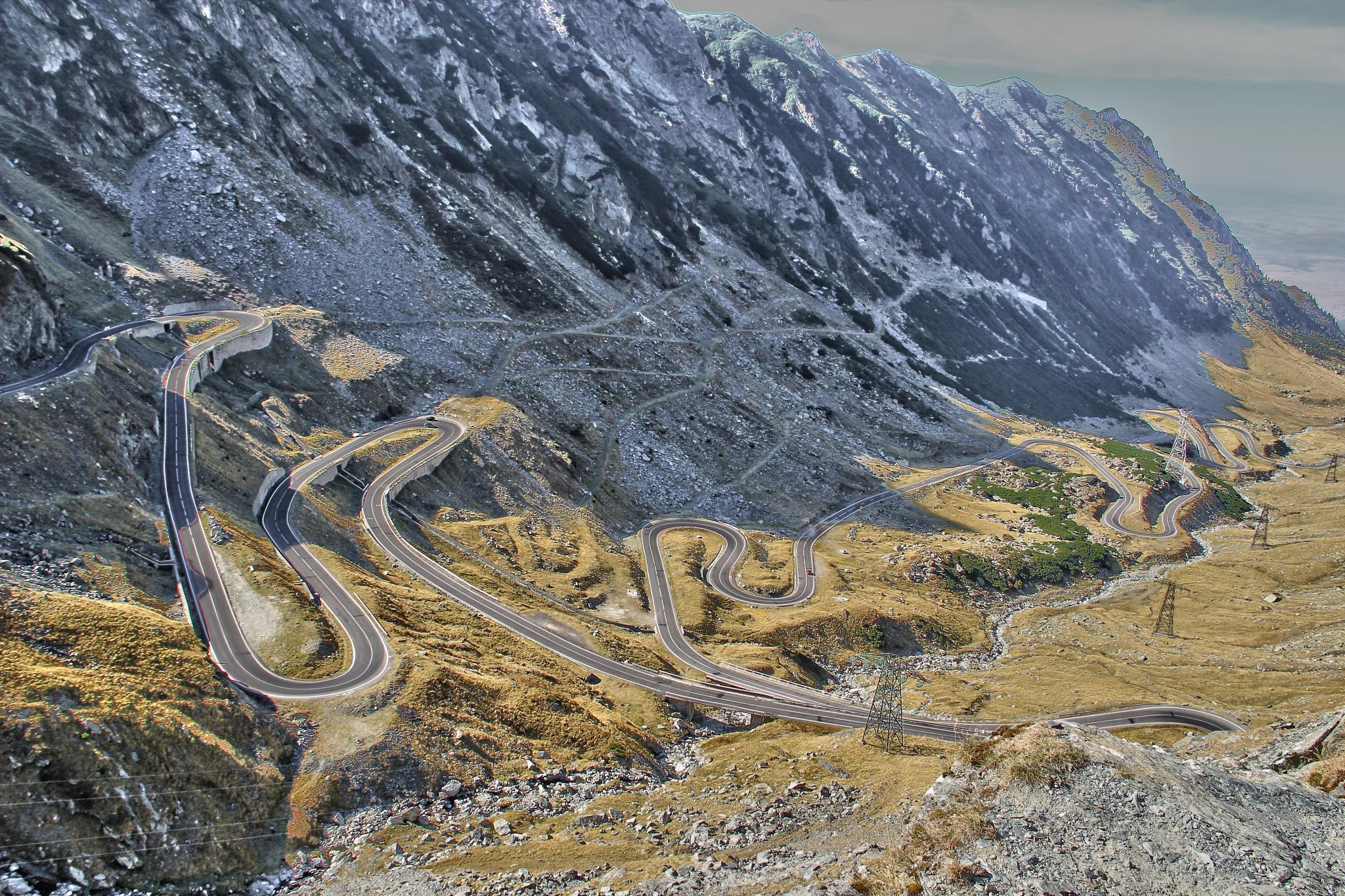 Transfăgărășan Highway (From the top)